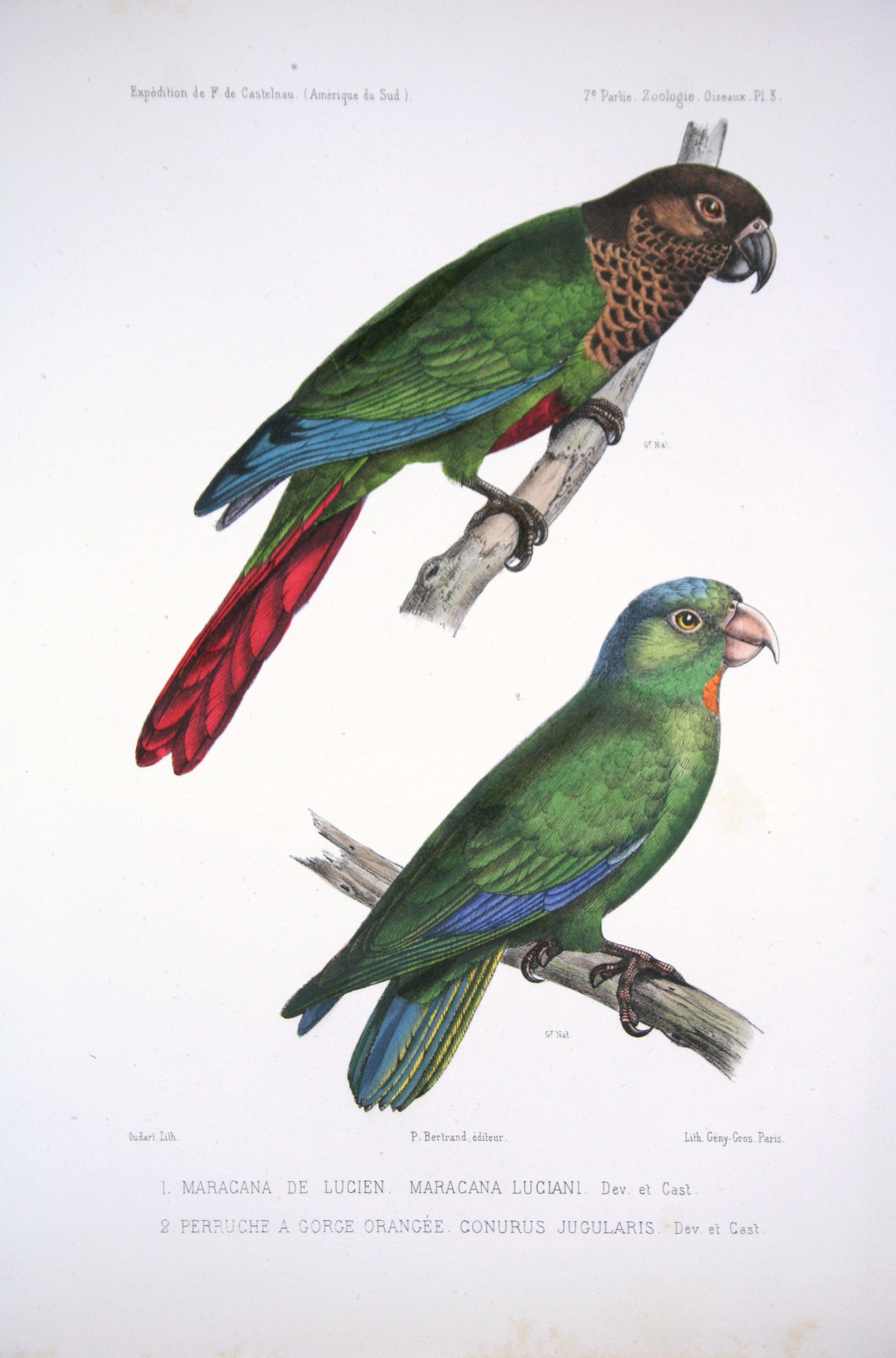 Deville's Parakeet (top), Orange-chinned Parakeet (bottom)